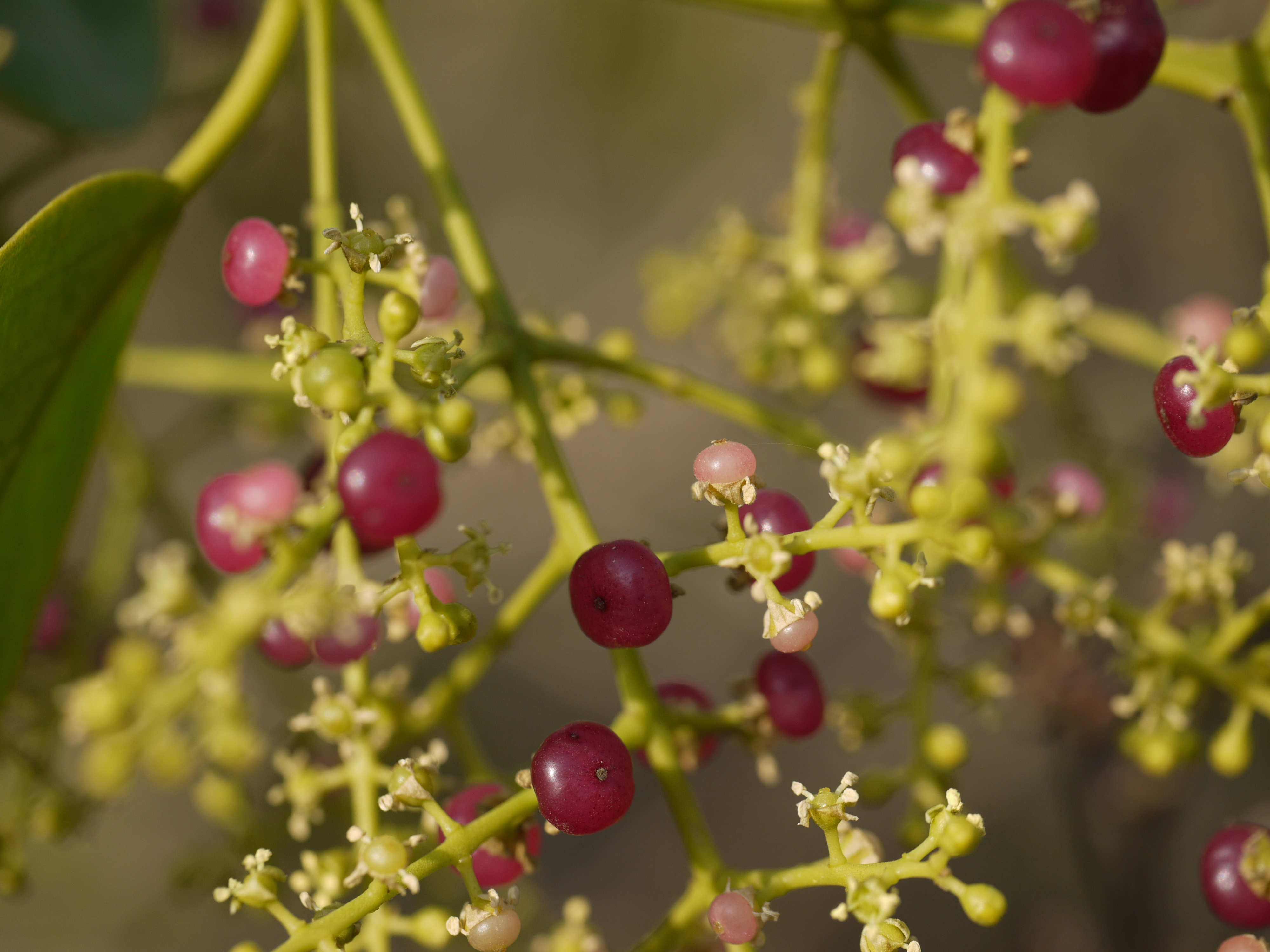 Salvadoraceae » Salvadora persica sal-va-DOR-a -- from the Latin salvus (whole) and dura (skin) PER-see-kuh -- meaning, of or from Persia commonly known as: mustard tree, salt brush, tooth brush tree • Gujarati: પીલુડી piludi • Hindi: मेस्वाक meswak, पिलु pilu • Kannada: ಗೊನಿಮರ gonimara • Marathi: khakan, पिलु pilu • Sanskrit: गुडफल gudaphala, पिलु pilu • Tamil: உகா uka • Telugu: గున్నంగి gunnangi References: World Agroforestry Centre • eFlora • Forest Flora of Andhra Pradesh